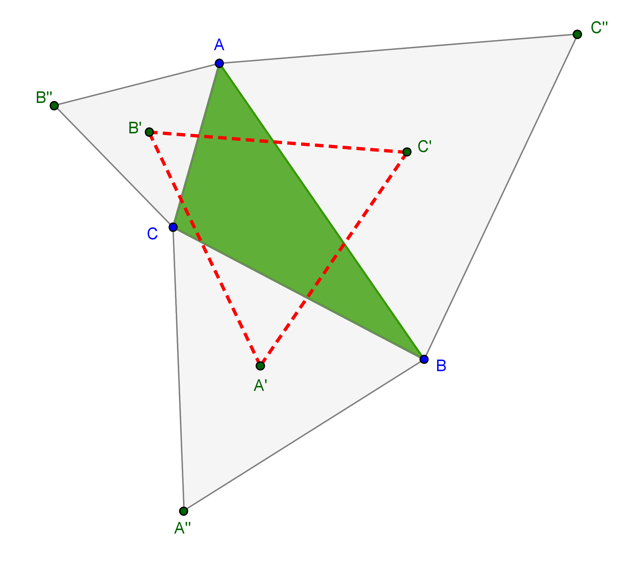 Napoleon's theorem